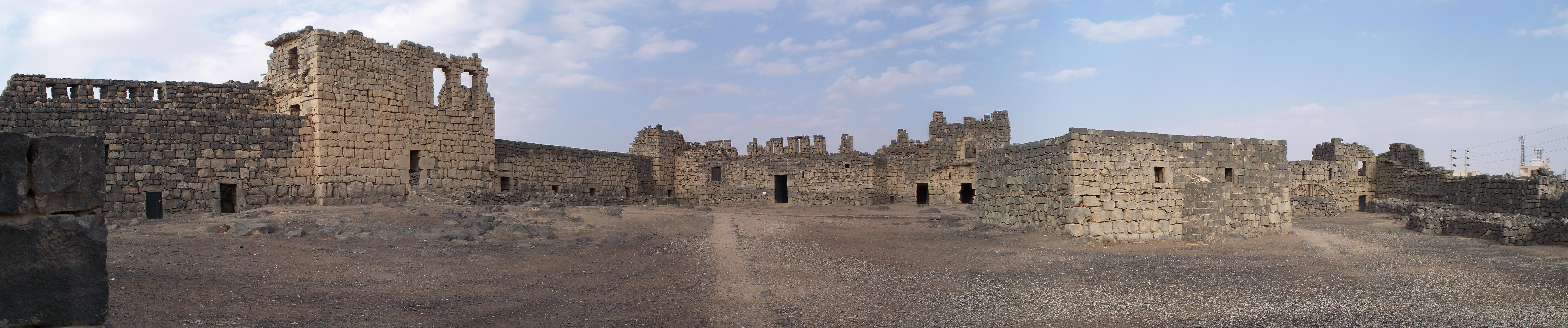 Inside the fortress Qasr Azraq in Jordan.